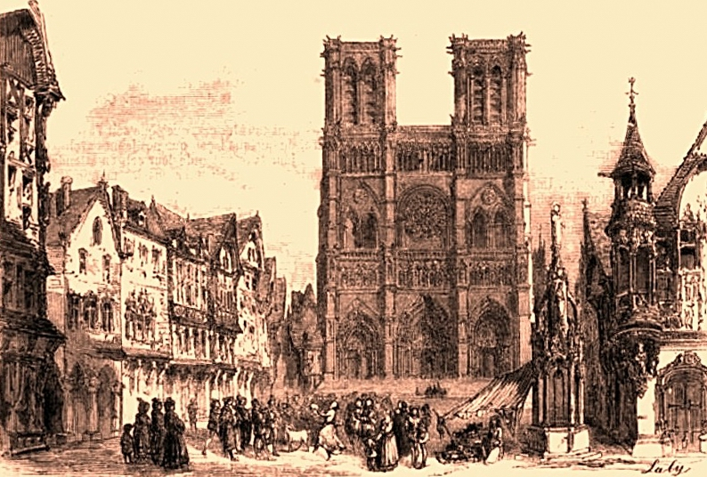 The Hunchback of Notre Dame (1831) by Victor Hugo (1840-1902)